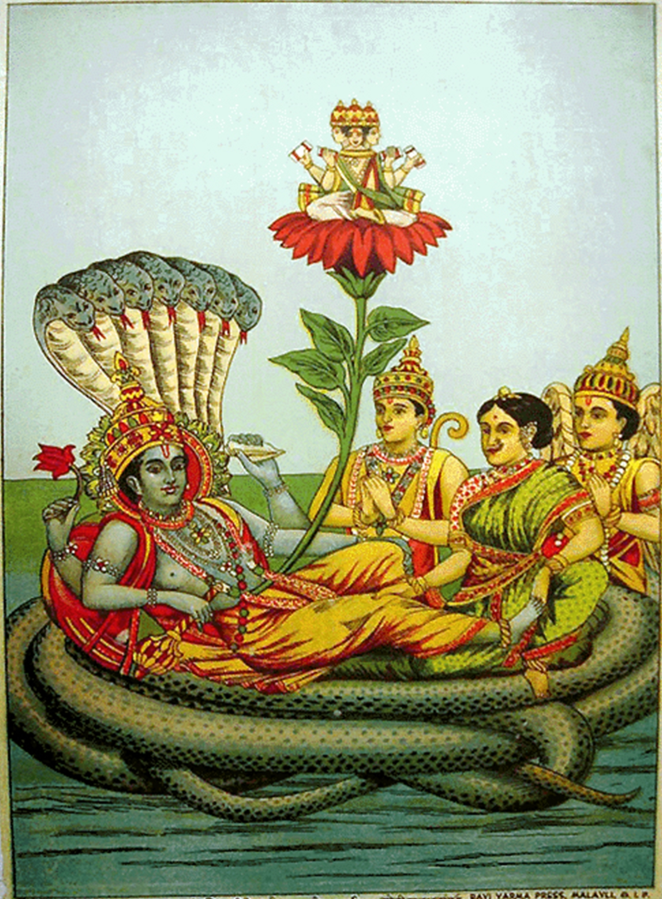 Vishnu Laxmi and Serpent Anant German Lithographic Press, Ravi Varma Press, Malavli